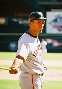 Moisés Alou formerly of the San Francisco Giants in the on deck circle.